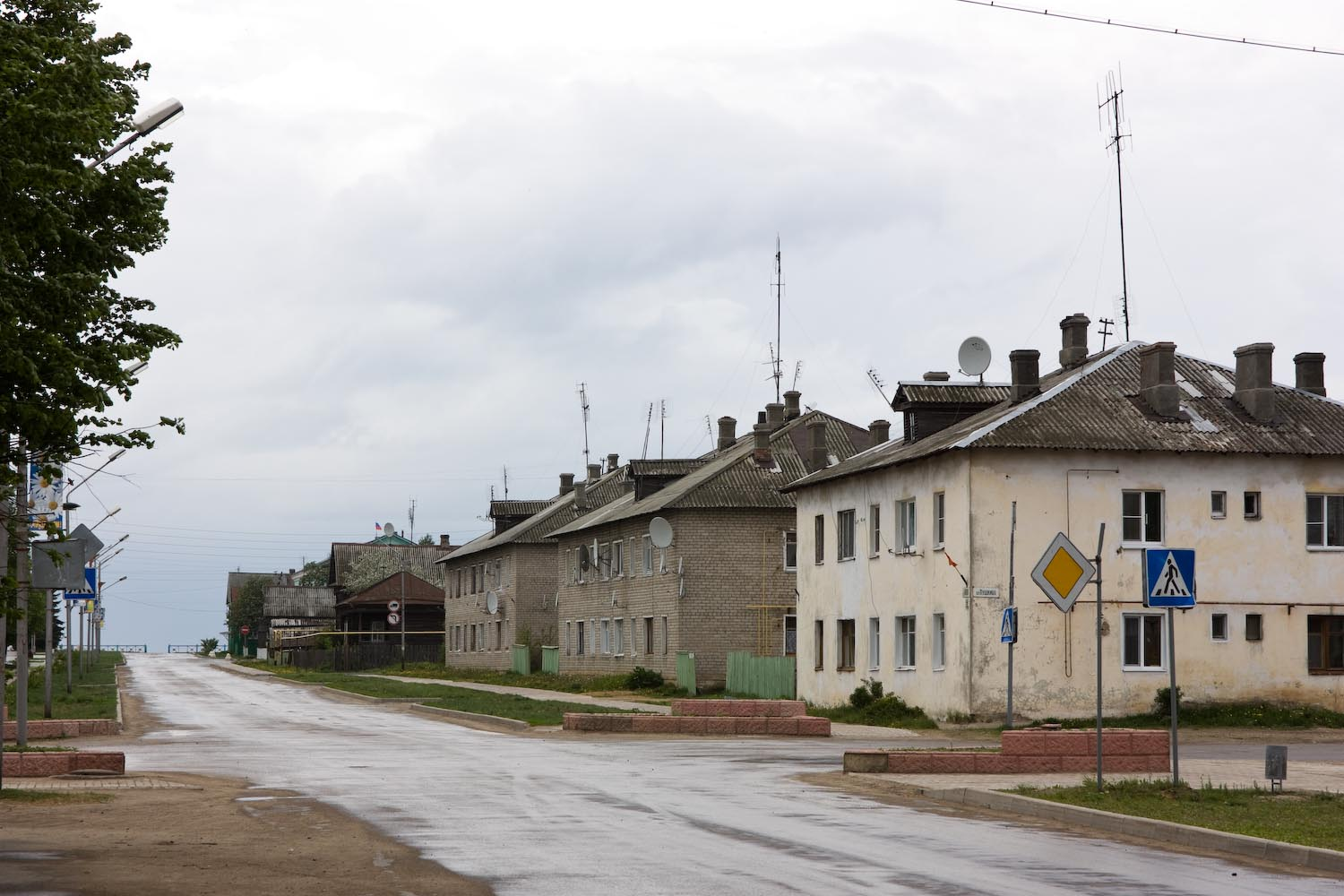 Street in Sokolskoe, Nizhny Novgorod oblast.